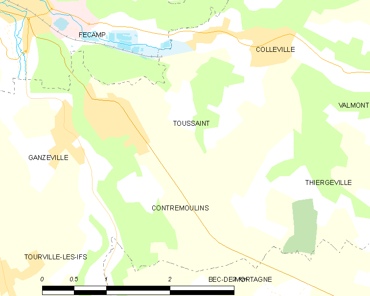 Map of French municipality Toussaint